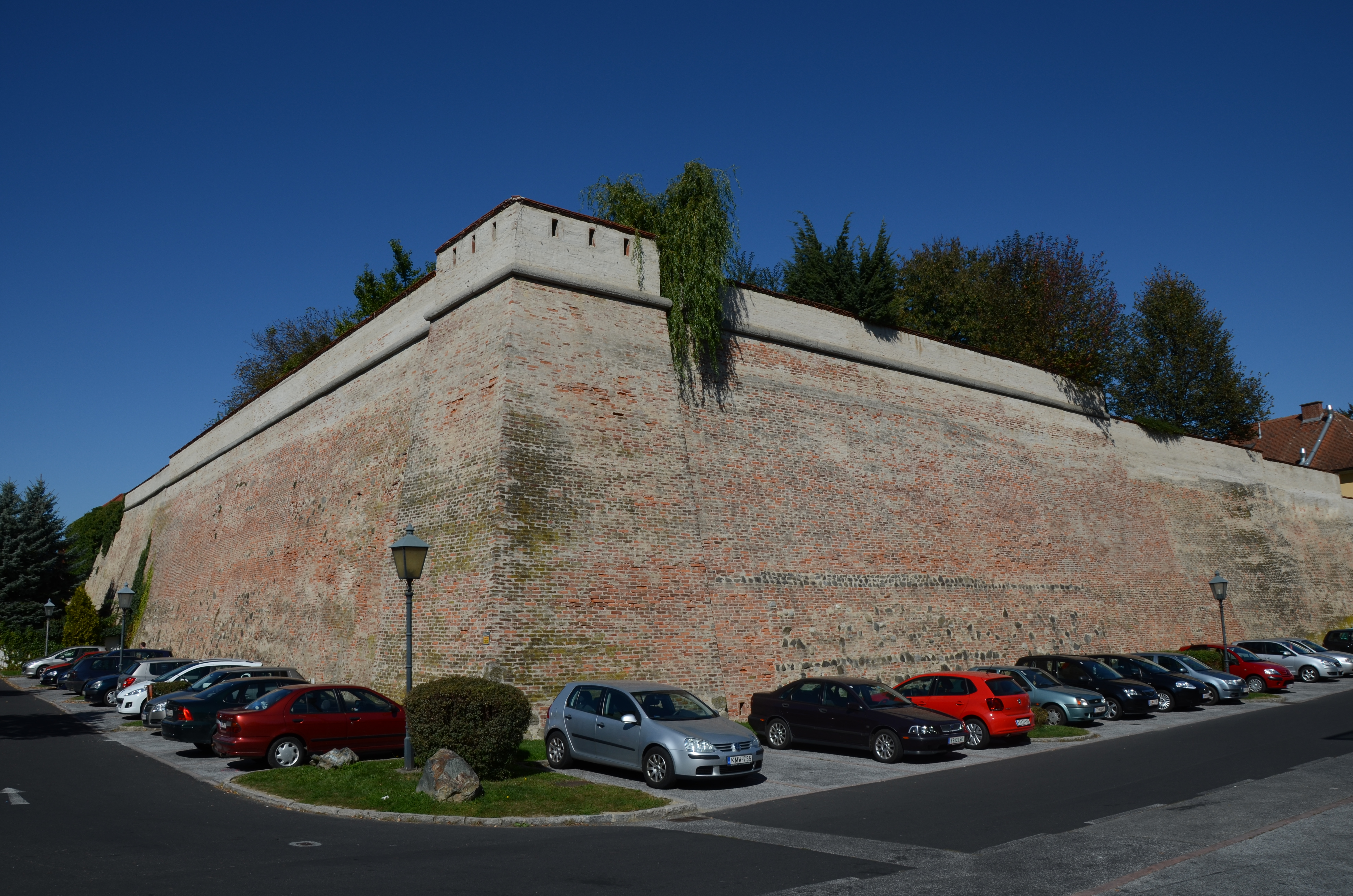 Ungarbastei Fürstenfeld